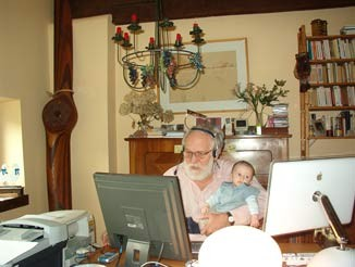 Marc W.F. Meurrens (59), with Nils (6 m), at home office, nov. 2004